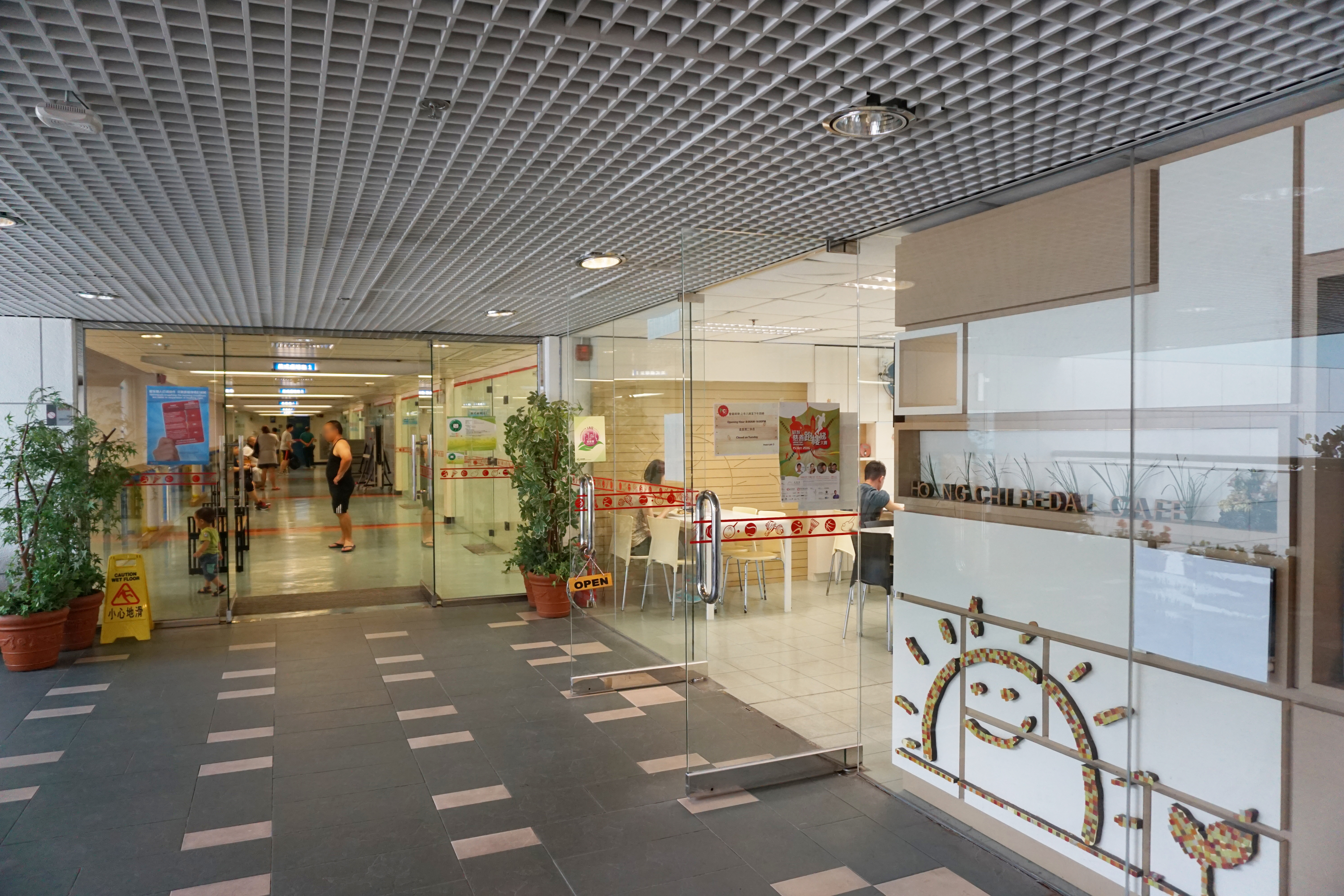 Tennis & Squash Centre in Aberdeen, Hong Kong.